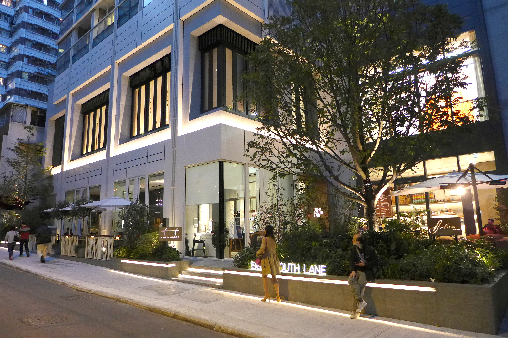 Eight South Lane Shops